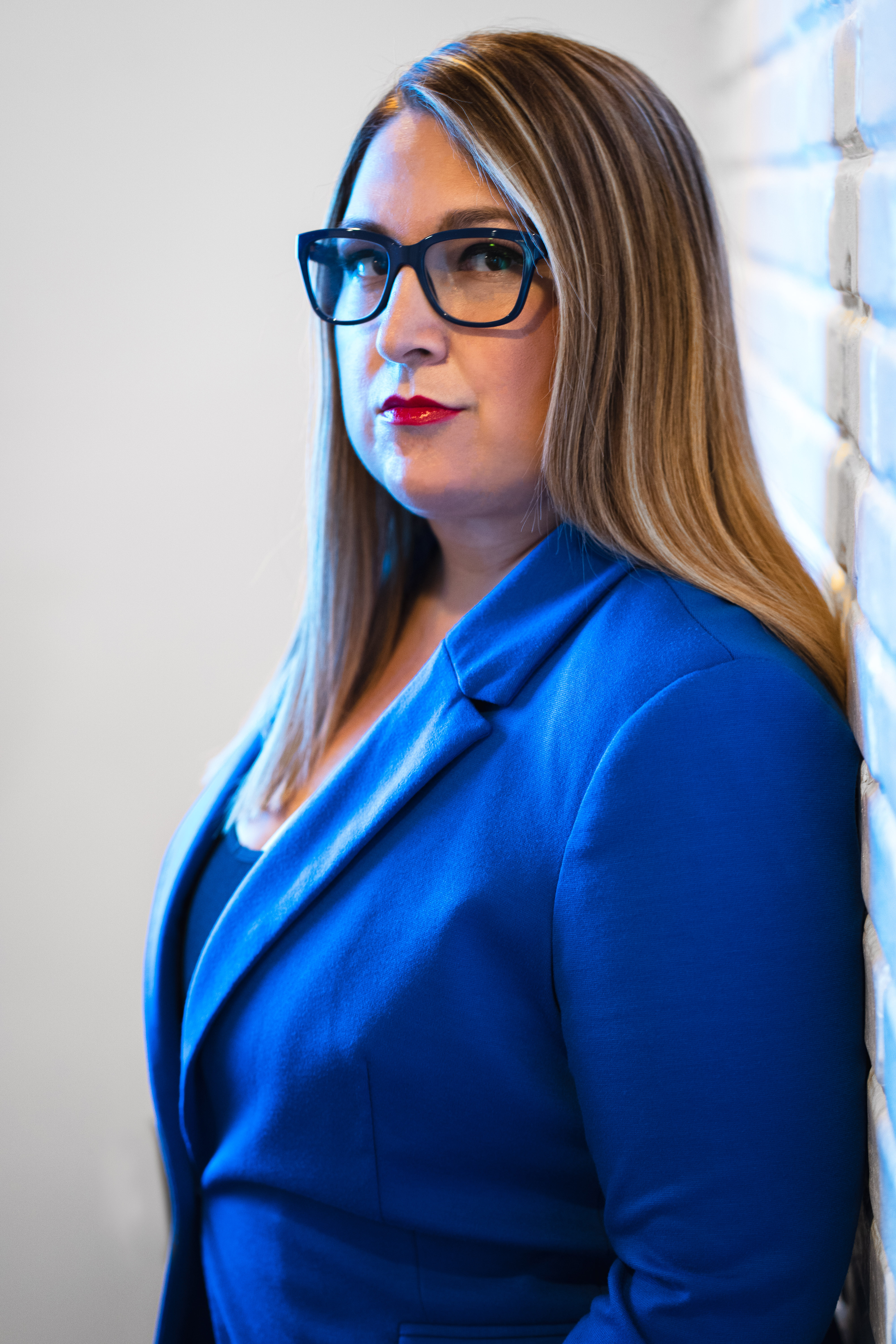 Image of Cathy Hackl standing in front of a wall